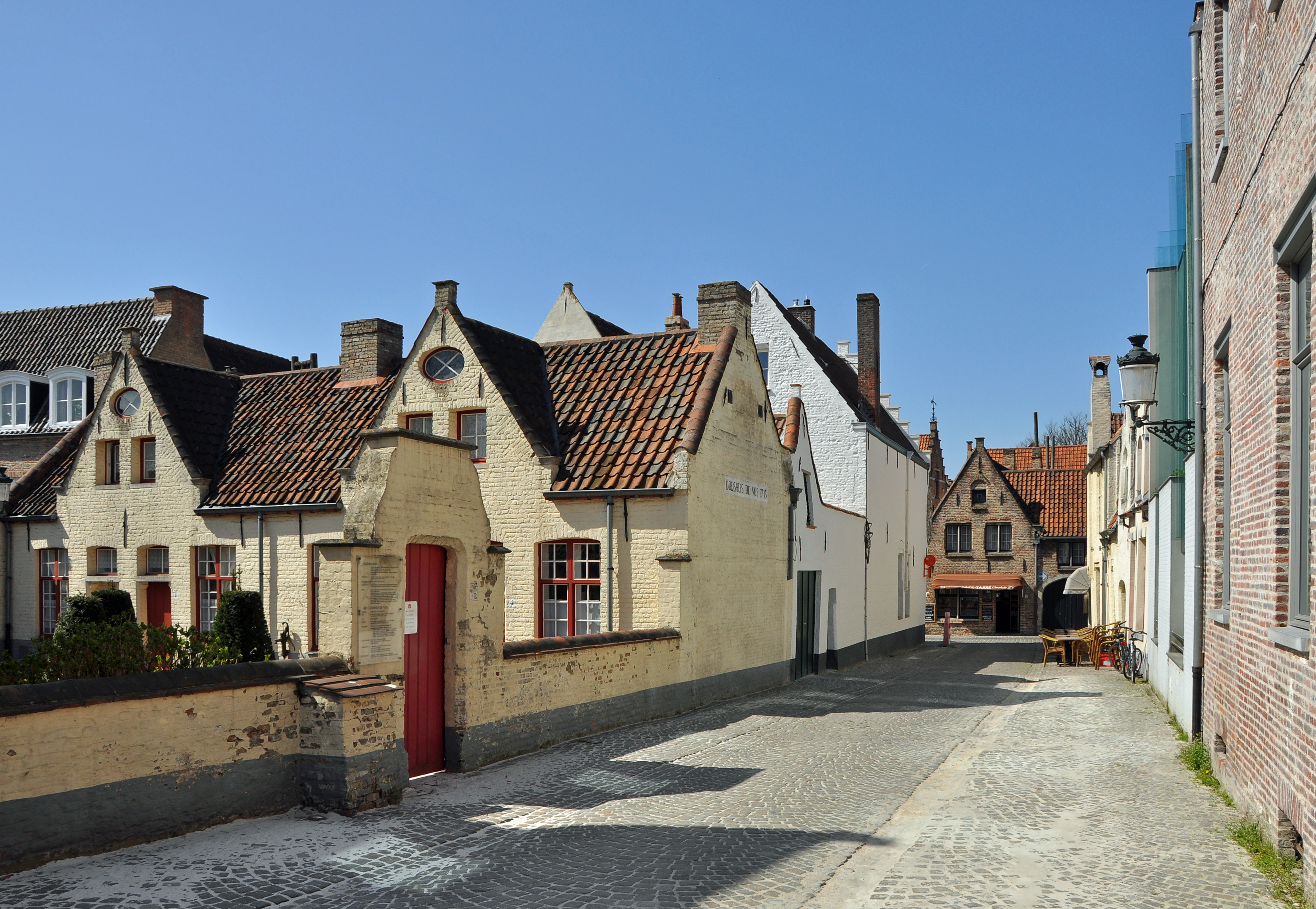 Bruges (Belgium): Noordstraat